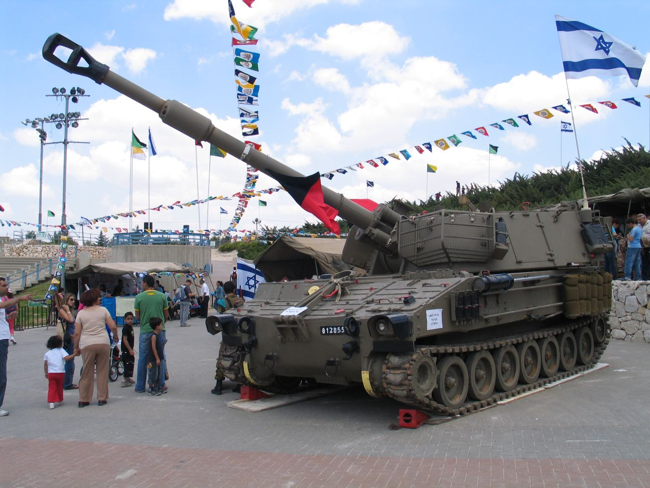 Israeli upgraded M109 155 mm howitzer, IDF designation Doher. Independence Day exhibition at Yad la-Shiryon Museum, Latrun, Israel.